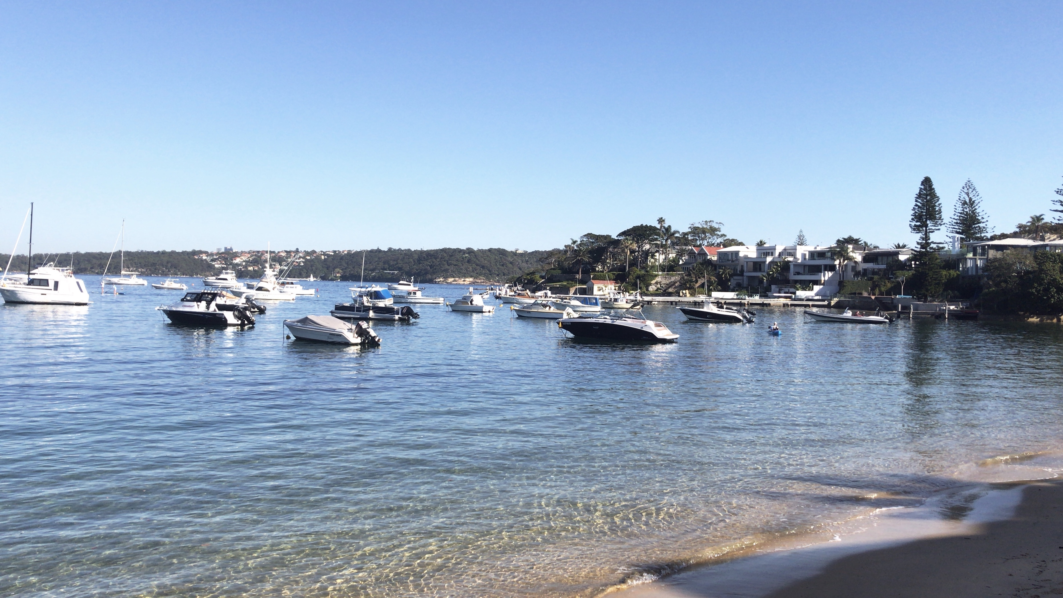 Beach at Watsons Bay, Sydney